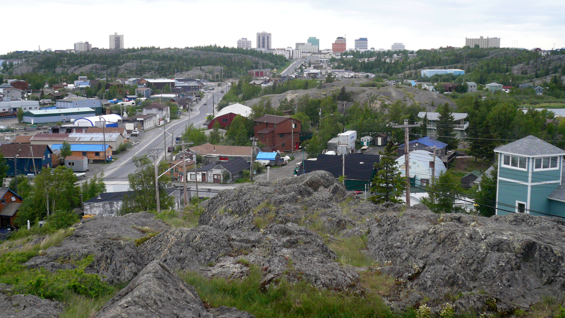 YELLOWKNIFE, VIEW FROM THE CLIFF, NWT, CANADA